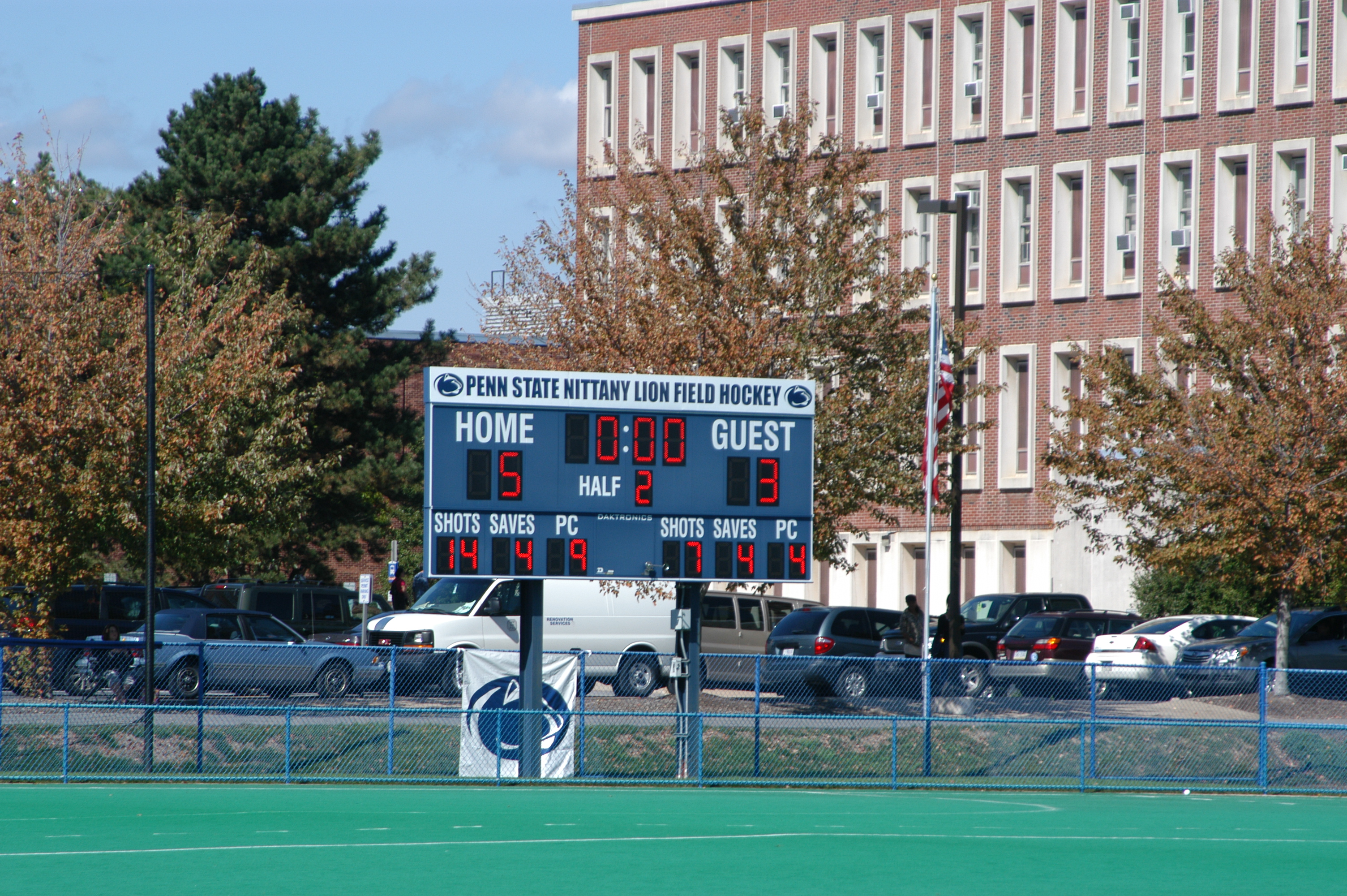 The Iowa Hawkeyes vs. the Penn State Nittany Lions during a Big Ten field hockey game in University Park, Pennsylvania.